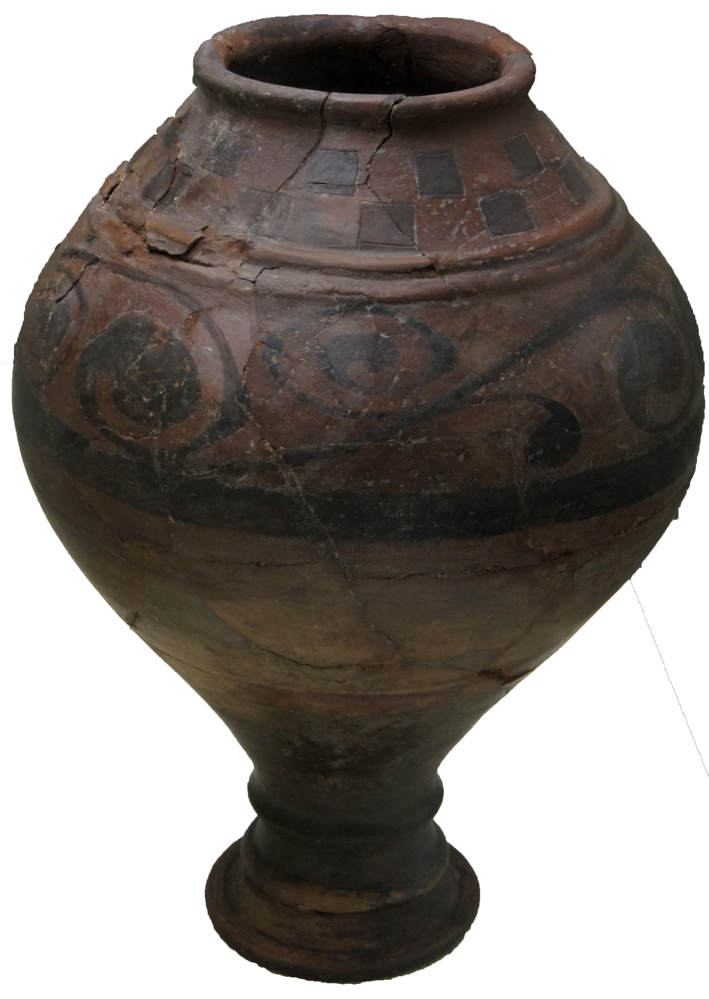 découvert lors de Fouilles archéologiques à Prunay.